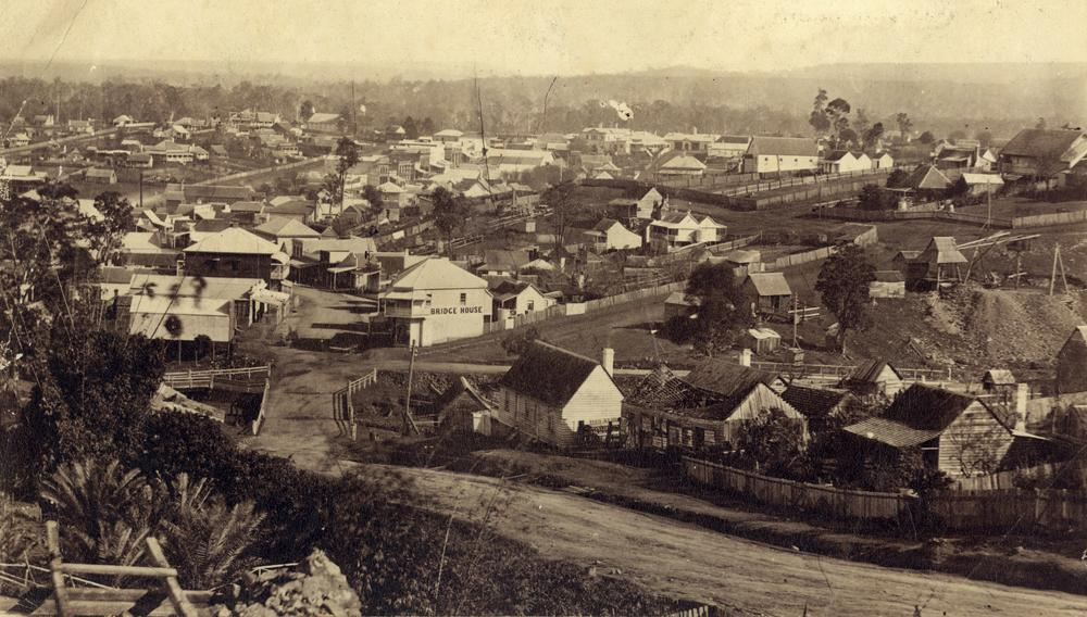 Gympie from the Three Mile during the gold mining boom.